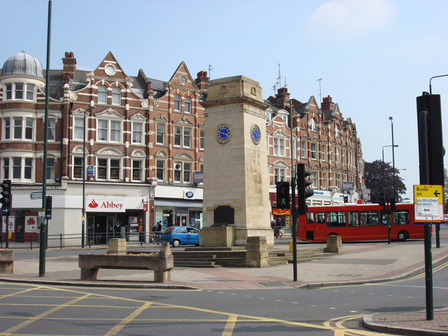 Golders Green Original description: Clock Tower at Golders Green This Clock Tower is Just south of Golders Green Underground Station